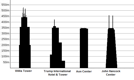 Comparison of skyscrapers in Chicago